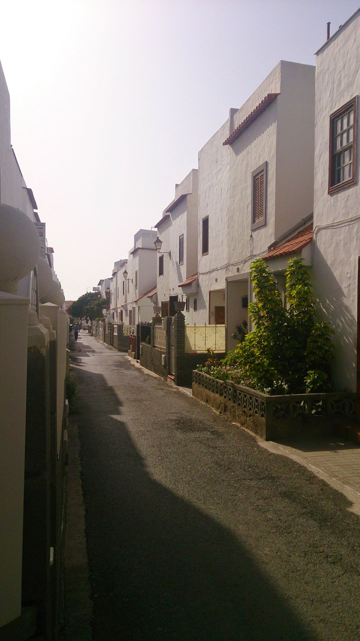 A street in the neighborhood El Patronato of San Fernando de Maspalomas.